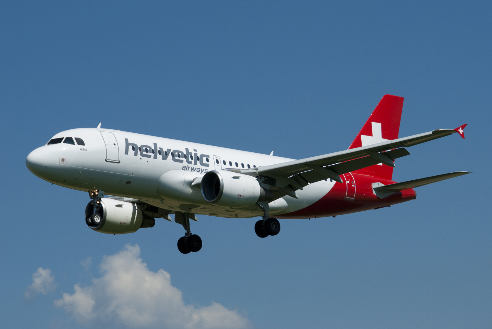 Airbus A319-112 HB-JVK of Helvetic Airways on short final for RWY 32 at Bern-Belp airport (LSZB).